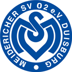 Logo MSV Duisburg